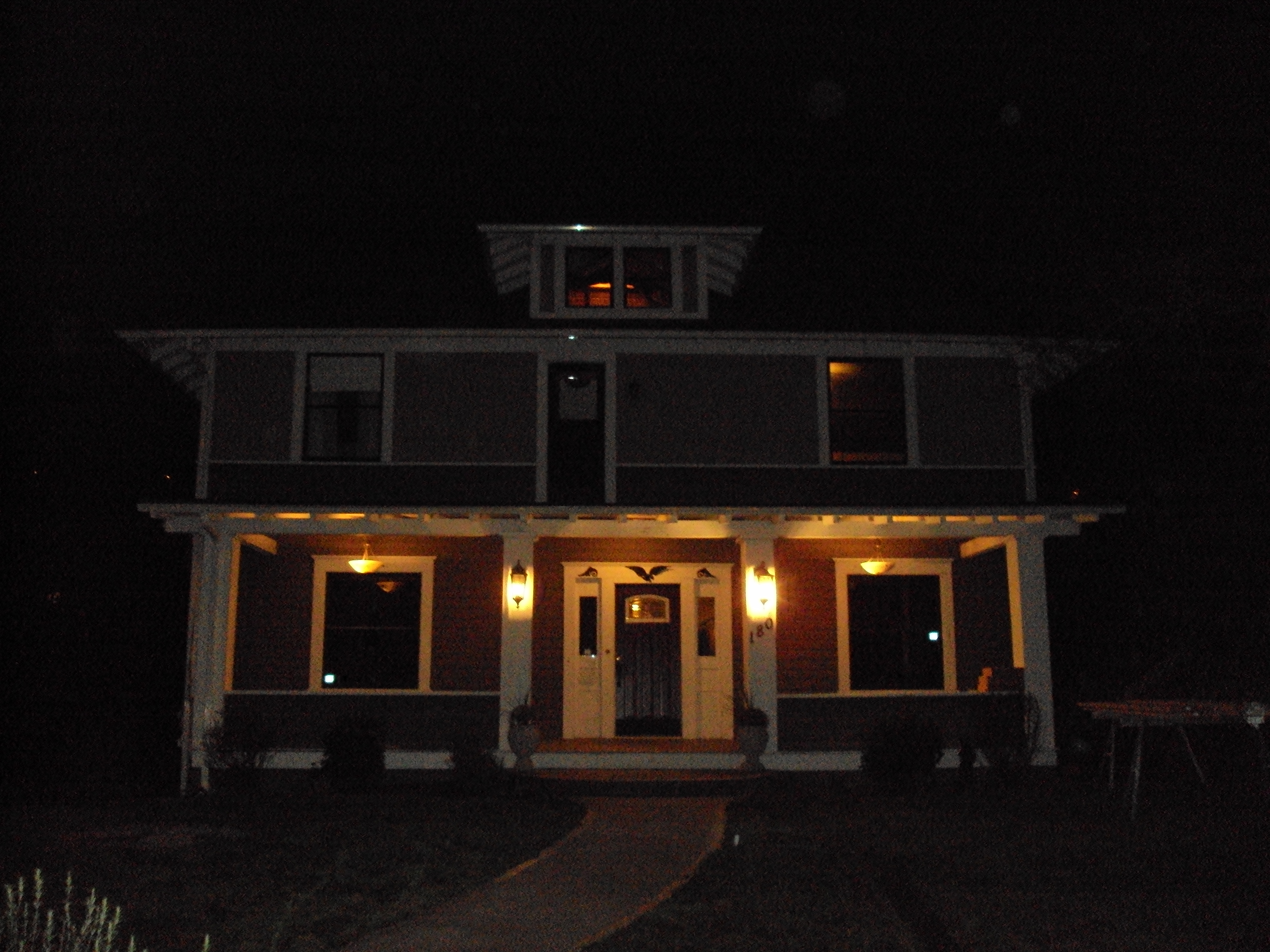 Montgomery House at Night Time